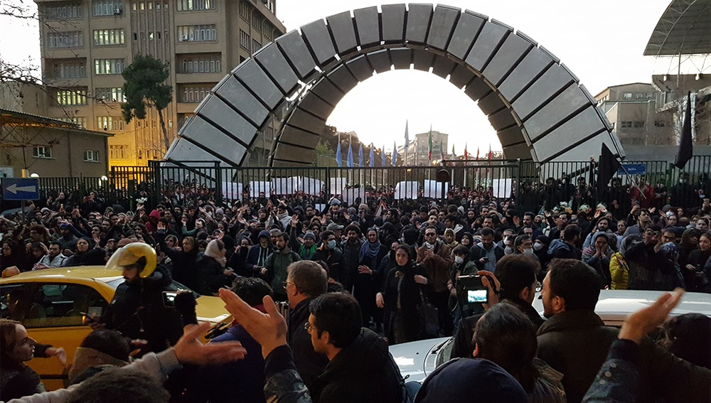 Protests against Ukraine International Airlines Flight 752 shot down by Sepah in front of Amir Kabir University